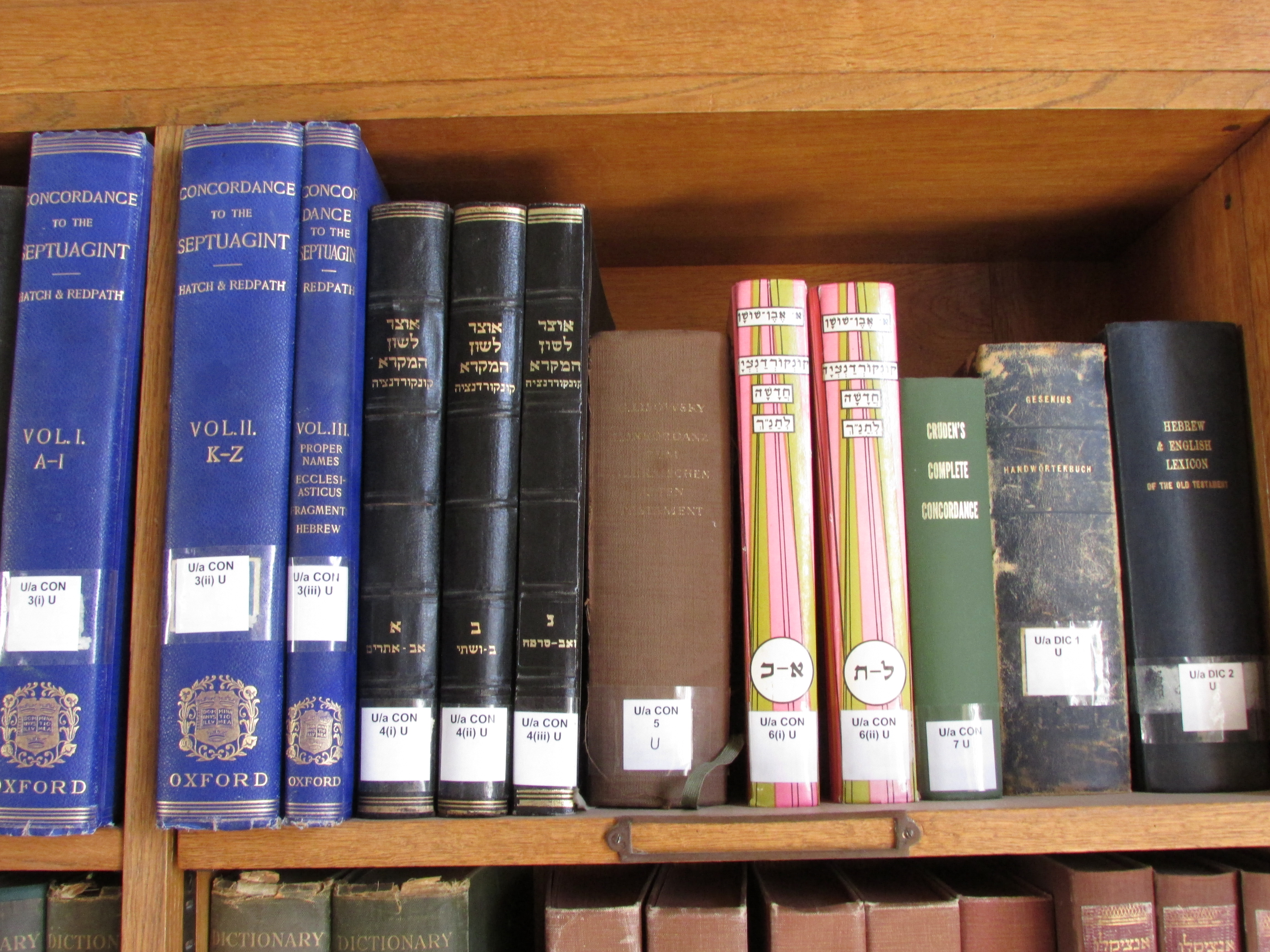 Rockefeller Museum library. Concordances